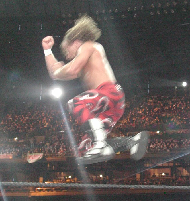 Shawn Michaels hitting a top rope elbow drop. Safeco Field, Seattle, WA, March 30en:2003.